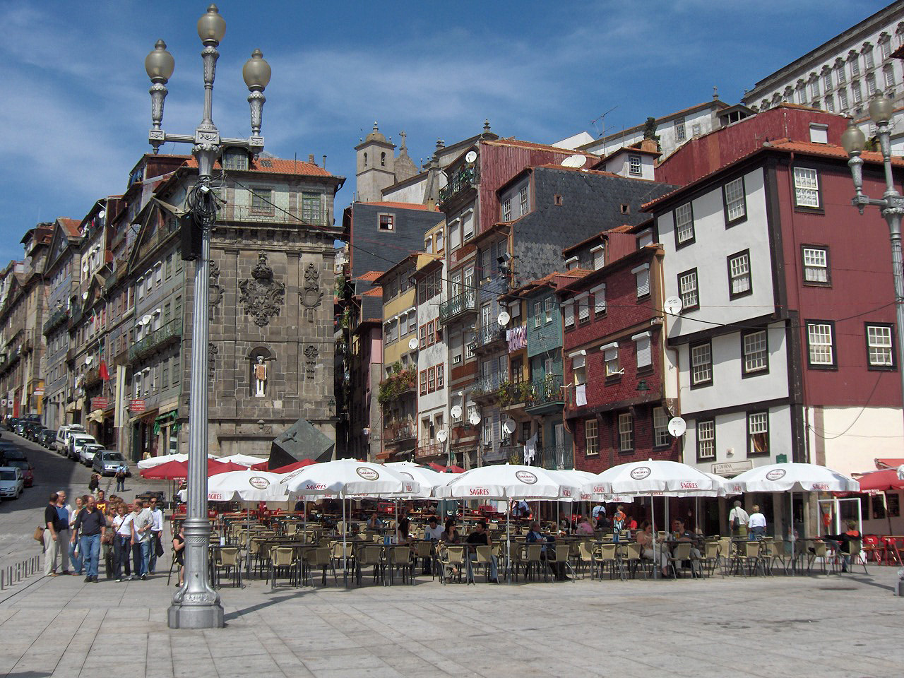 Ribeira, an old district (under protection of the UNESCO) in Porto, Portugal